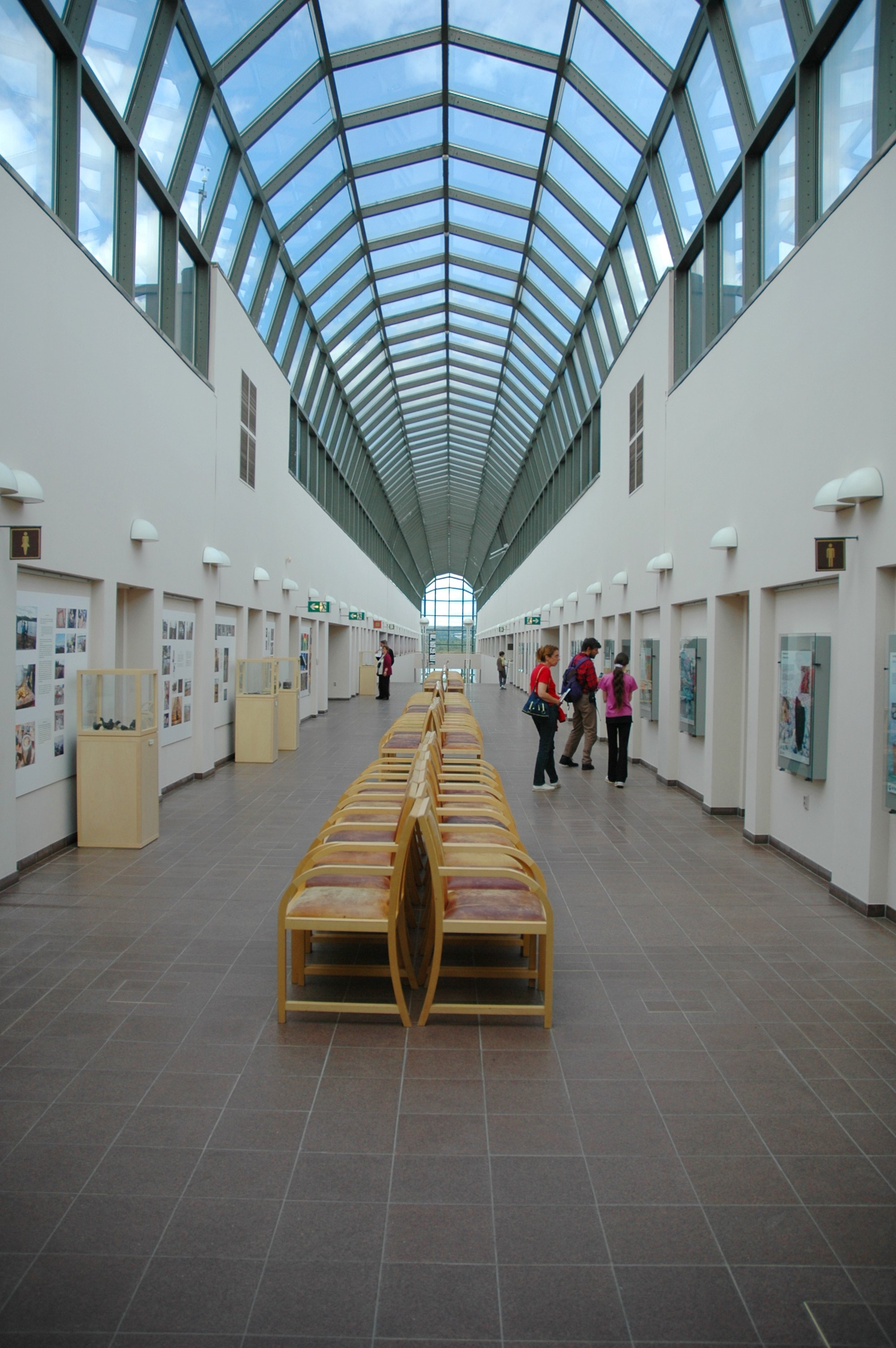 Artikum Museum in Rovaniemi, Finland